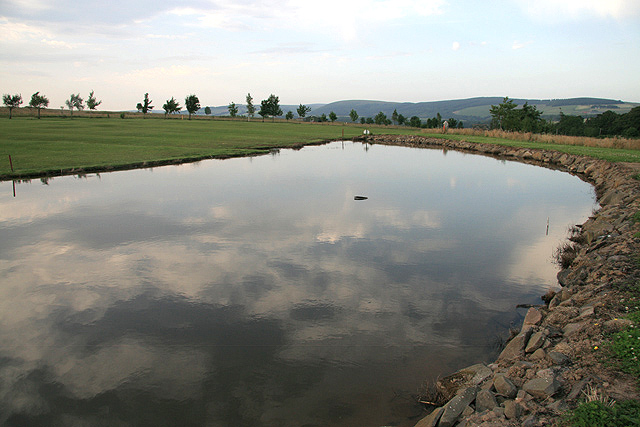 A pond at Lauder golf course Golfers at this 9 hole course have to negotiate this water hazard by the 1st fairway. A warning sign and lifebuoy are positioned by the edge of the pond. Viewed in evening light looking back in the direction of the 1st tee.